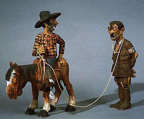 Cowboy and Adolf Hitler, by H. S. Anderson, Topanga, California, 1942 Gift of Jesse Jones, Secretary of Commerce to President Franklin D Roosevelt Wood, cowboy: 12 1/2 x 6 1/2x 10 inches; Hitler: 10 7/8 x 3 1/4 x 4 inches